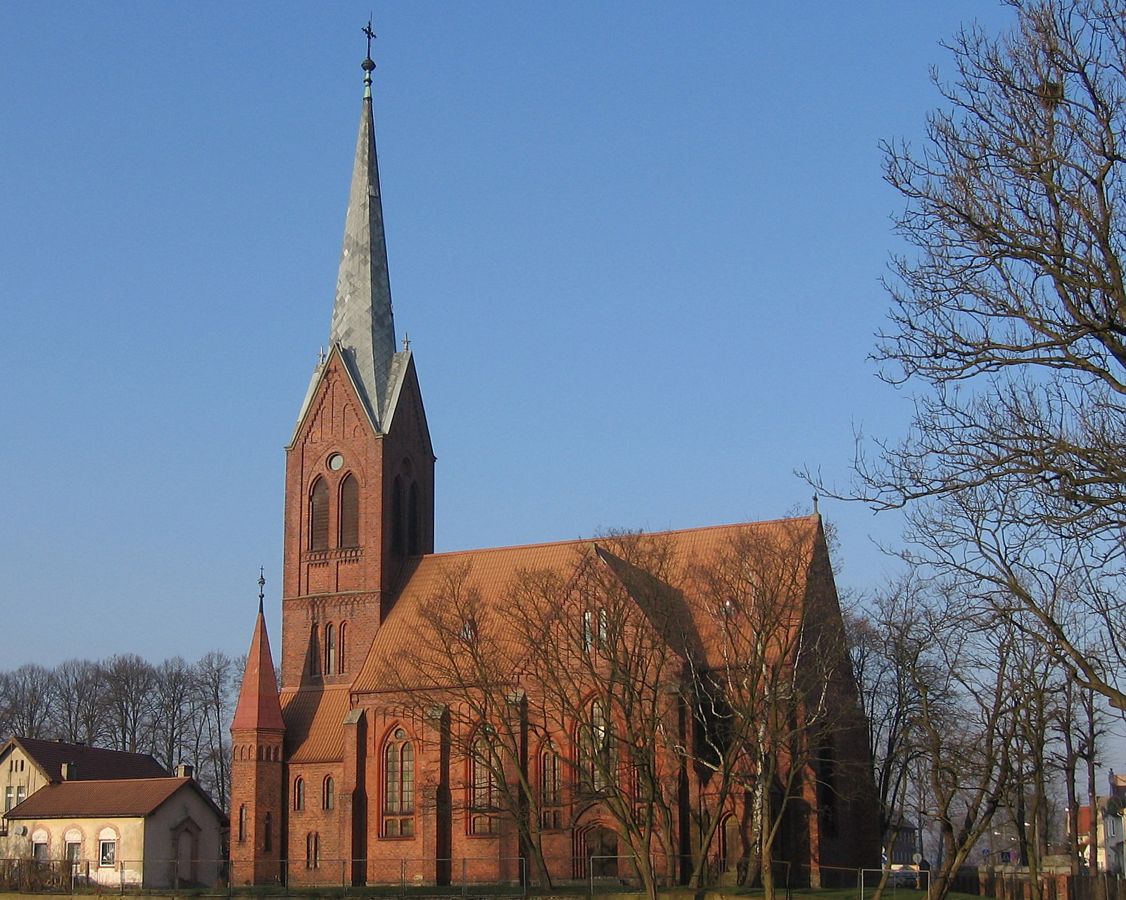 Dormition of the Mother of God orthodox church in Gryfice, Poland